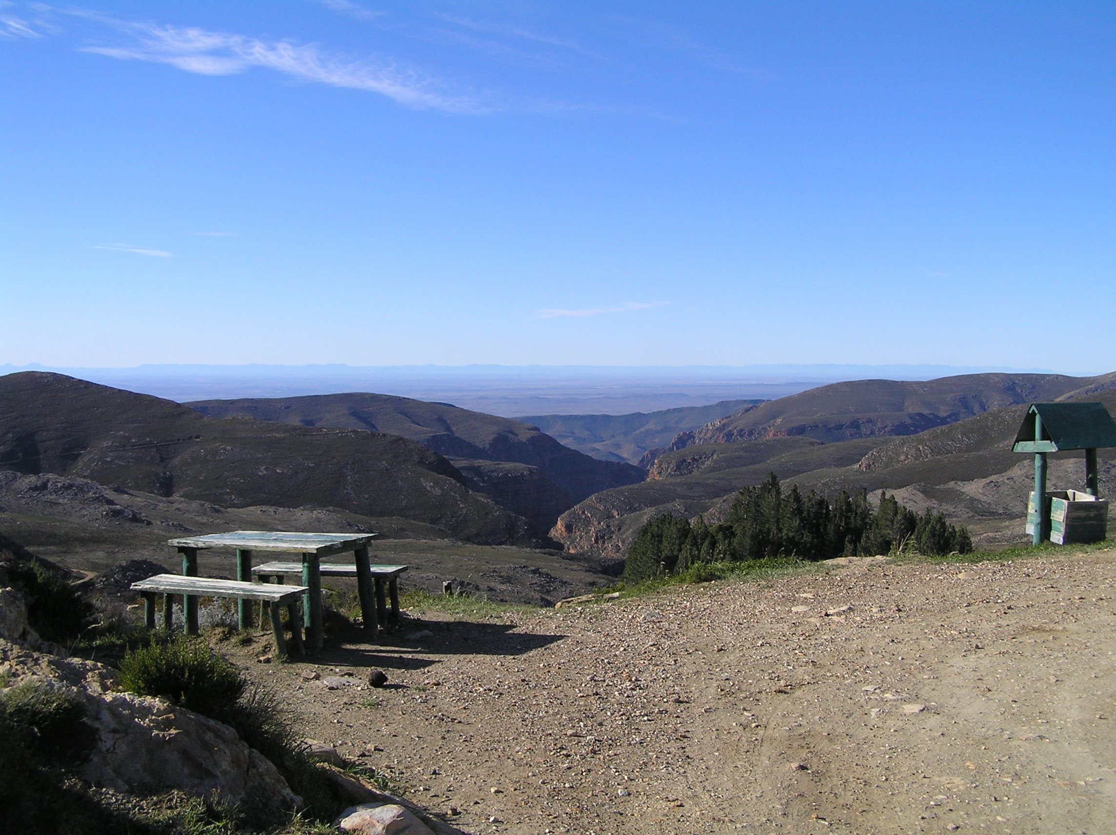 View north from the top of the Swartberg Pass - South Africa Lat 33:31:18S Long 22:03:04E